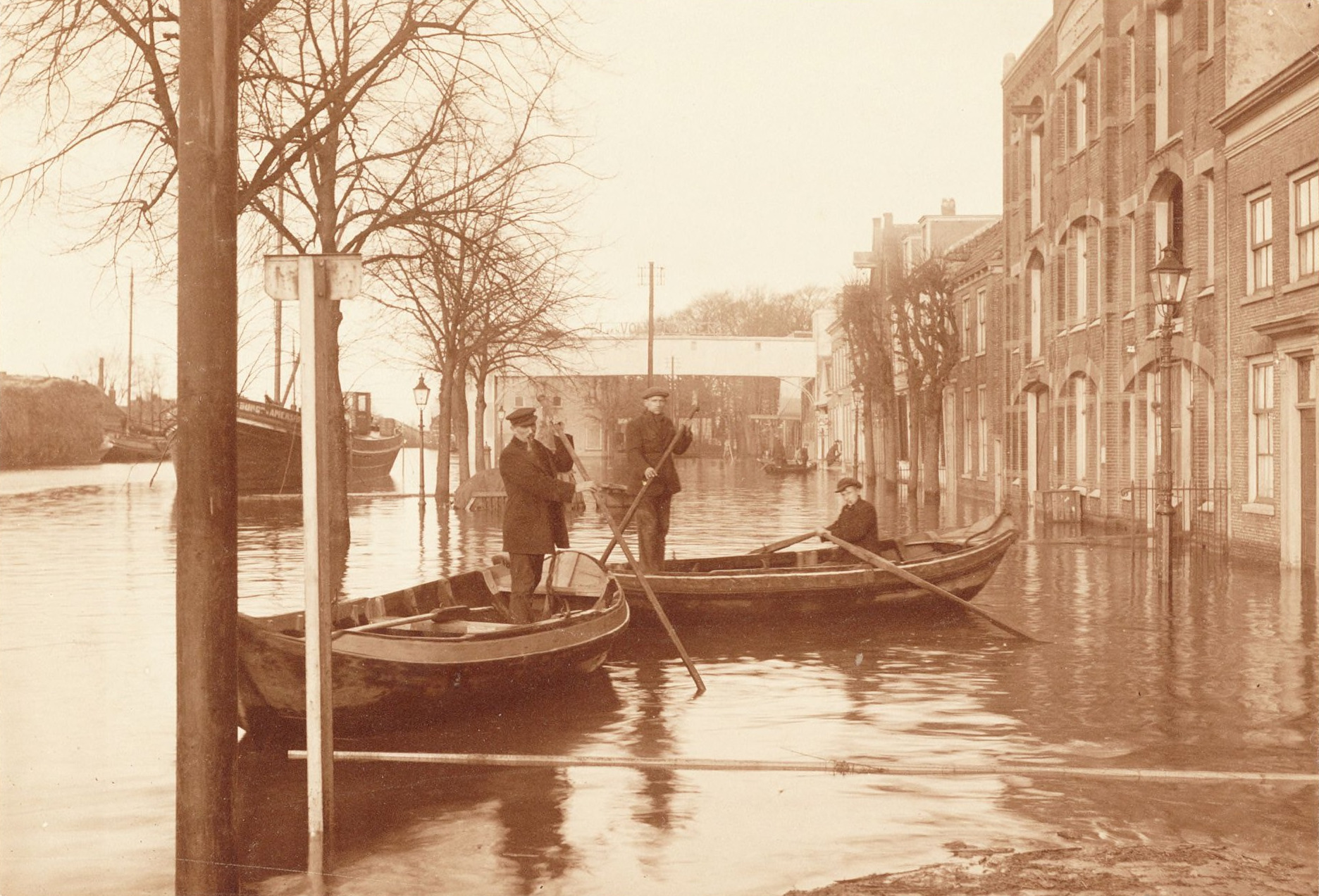 A flooding of the Eem onto the Grote Koppel, during the flood of 1916.